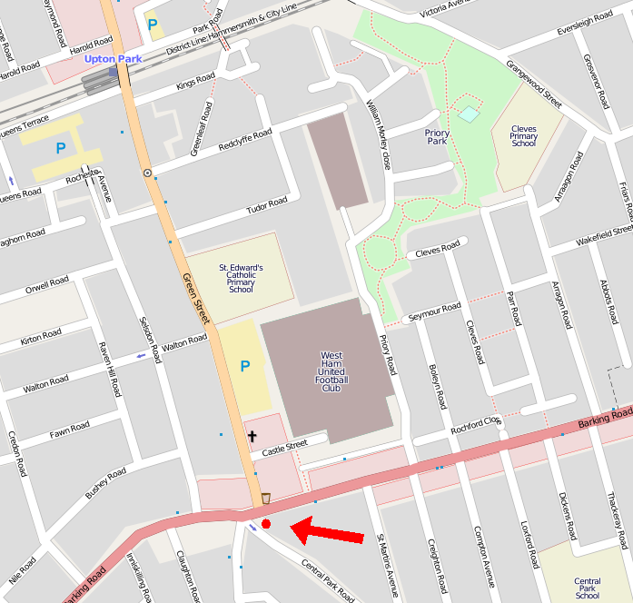 Map showing the location of the England 1966 World Cup Final Champions sculpture by Philip Jackson, sited near West Ham United's home stadium, Upton Park (The Boleyn Ground), in East London, England.